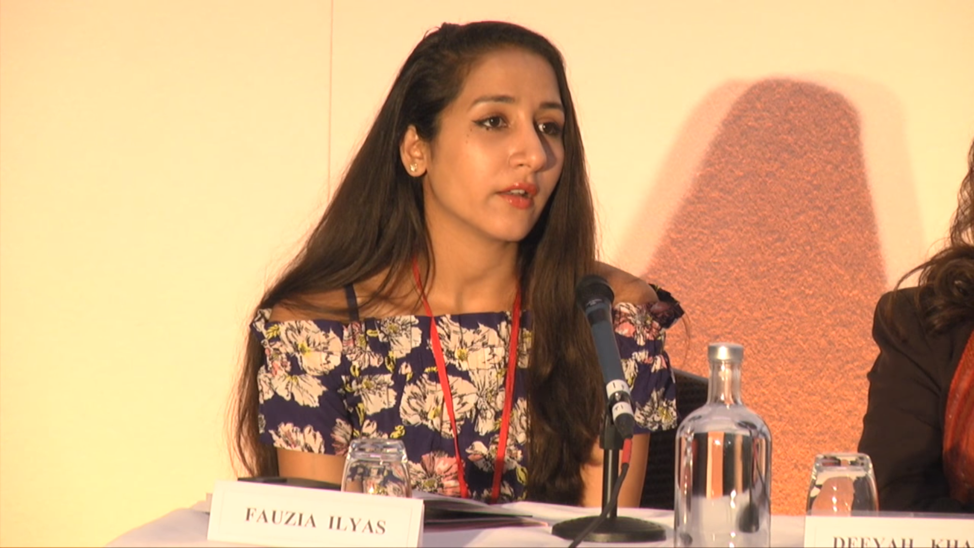 Fauzia Ilyas on Islam's Non-Believers Panel Discussion at the International Conference on Free Expression and Conscience, London, 22-24 July 2017 (#IWant2BFree).